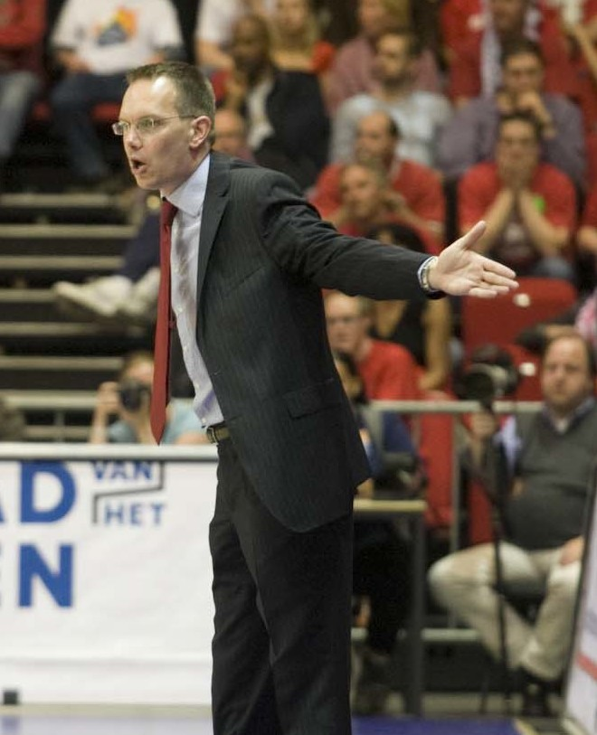 Erik Braal coaching West-Brabant Giants during the Finals of the Dutch Eredivisie in 2010.